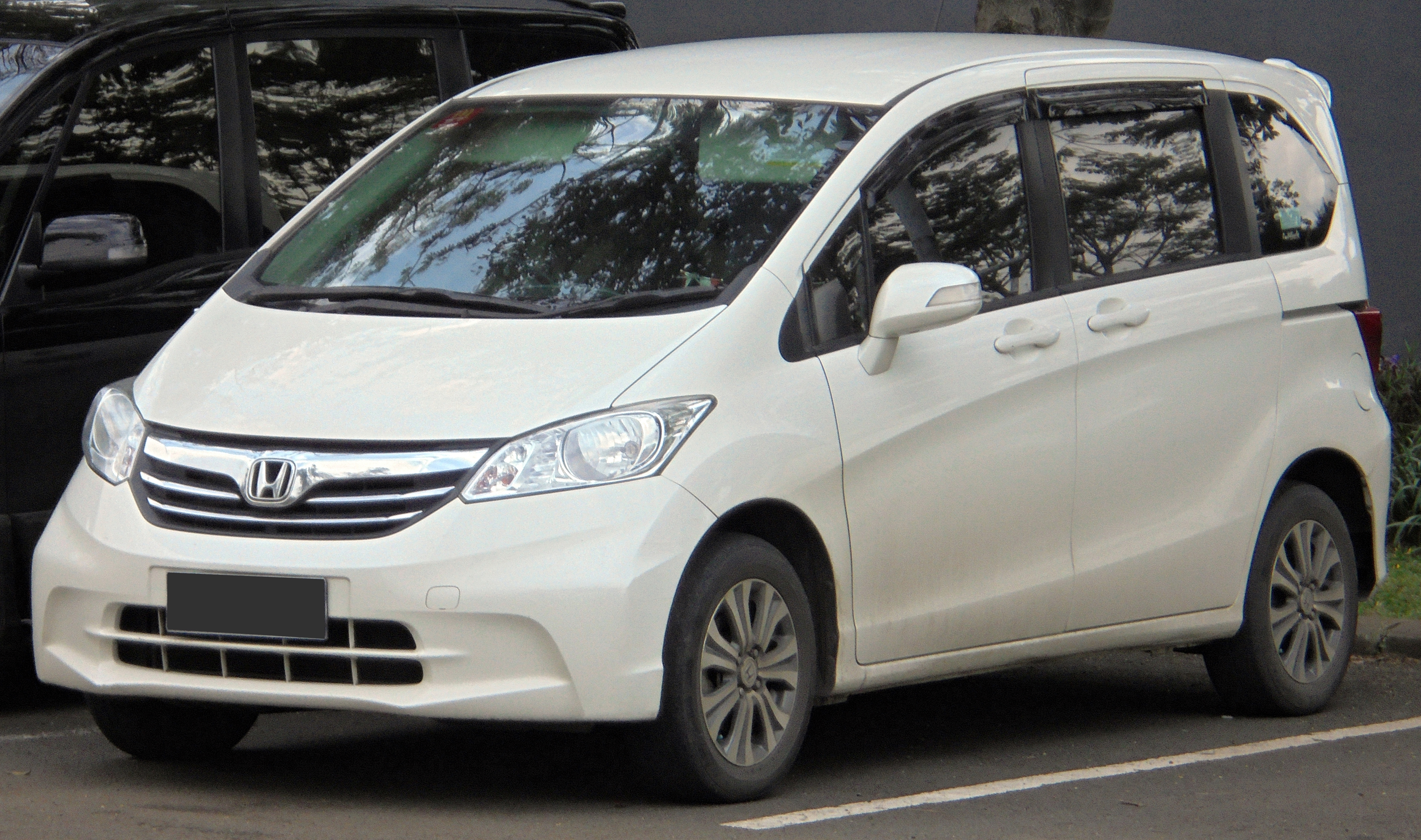 2014 Honda Freed 1.5 S van (GB3) photographed in South Tangerang, Banten, Indonesia.